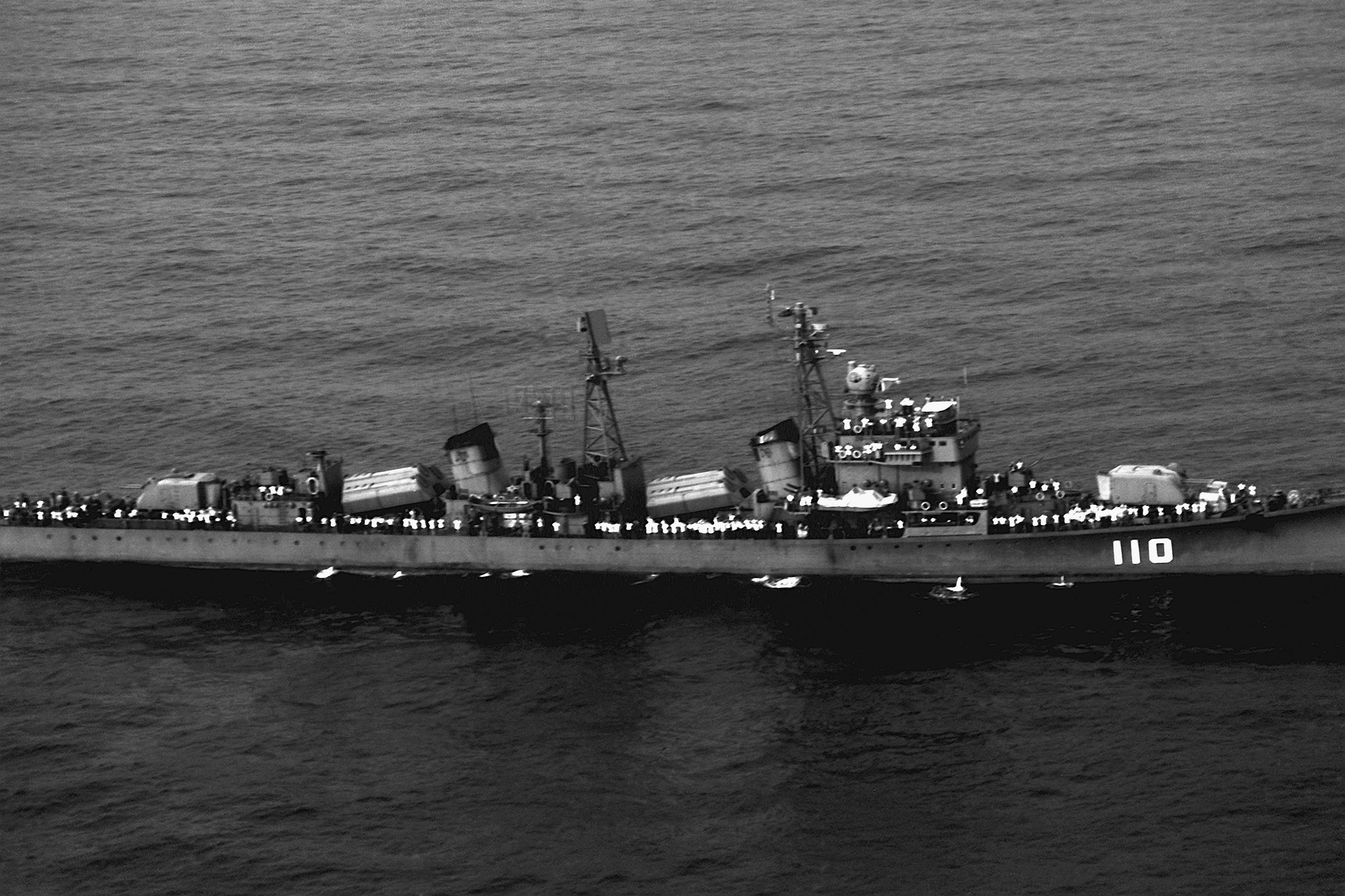 A starboard beam view of a Chinese Luda Class destroyer DALIAN (DDG-110) underway.